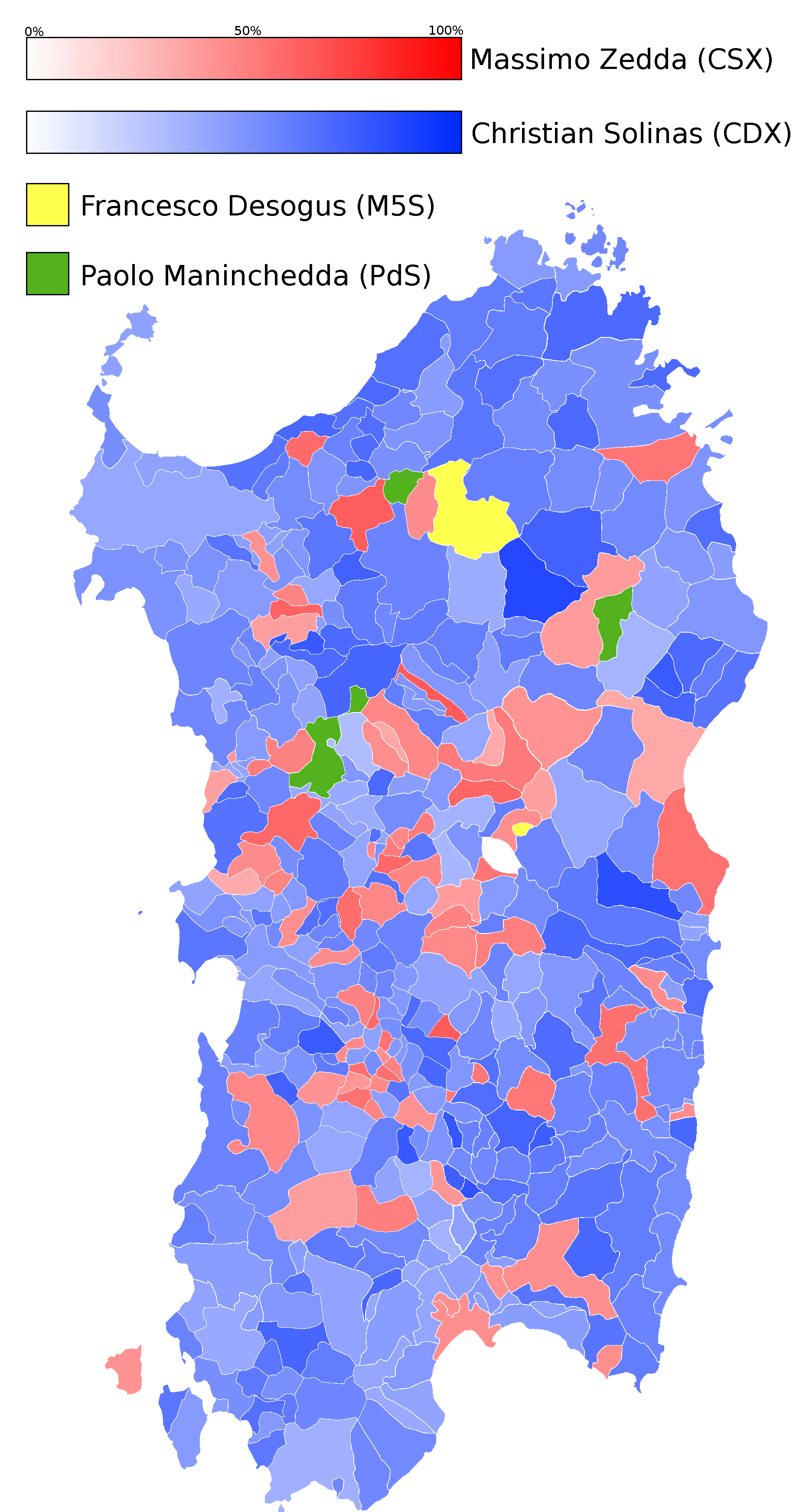 An electoral map by commune showing which of the candidates got the most votes.